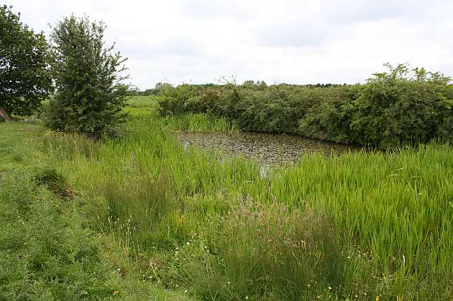 Pond by Ridley trig point Rather unexpected pond at the top of a hill next to the trig point. A Moorhen had successfully raised at least one chick on the pond, as parent and juvenile pattered into the reeds on our arrival. Good views to the Peckforton Hills from here.